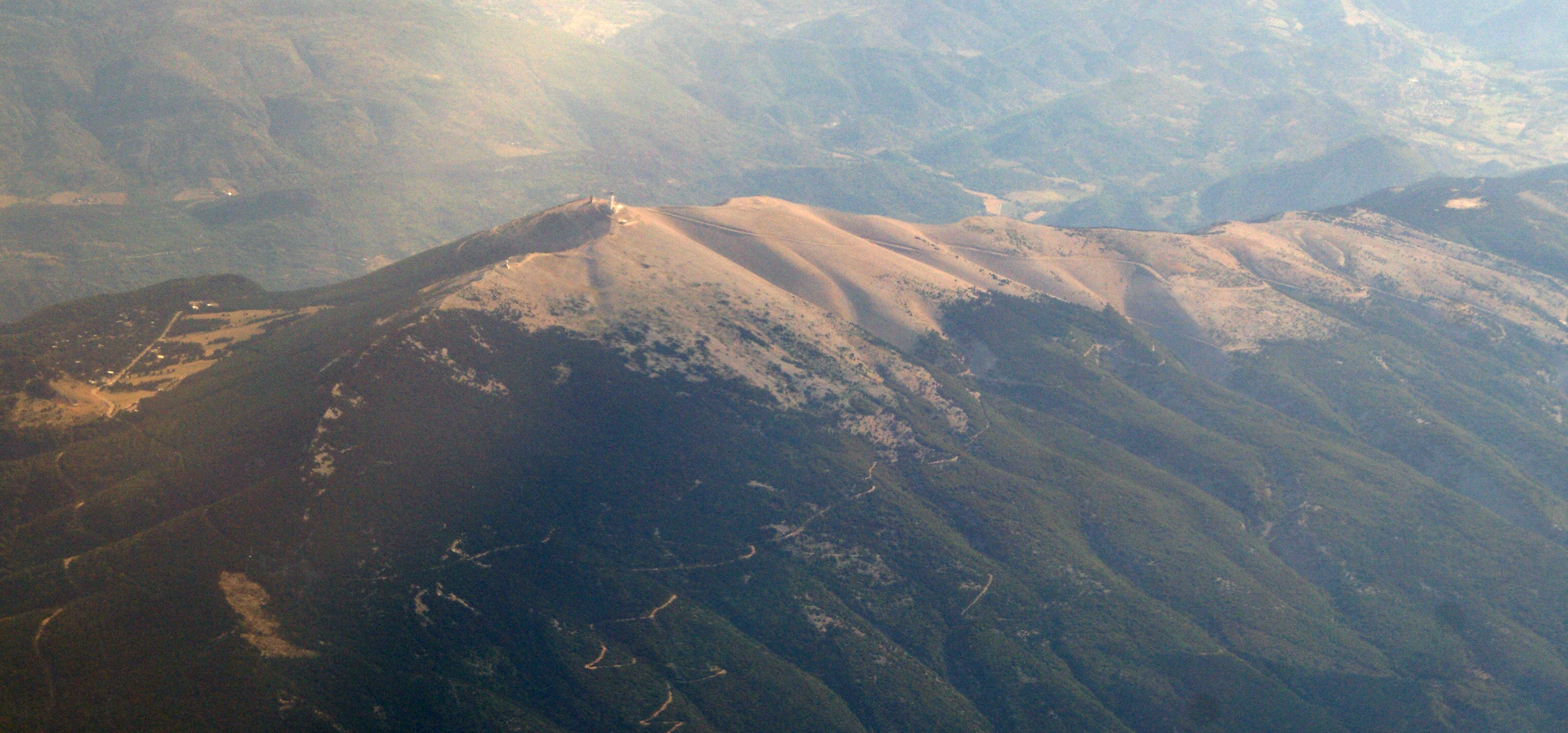 Aerial photo of Mont Ventoux (France), taken from a plane flying from Edinburgh to Marseille. Taken from the southwest of Mont Ventoux. I changed the white balance levels in the Gimp and cropped the photo.